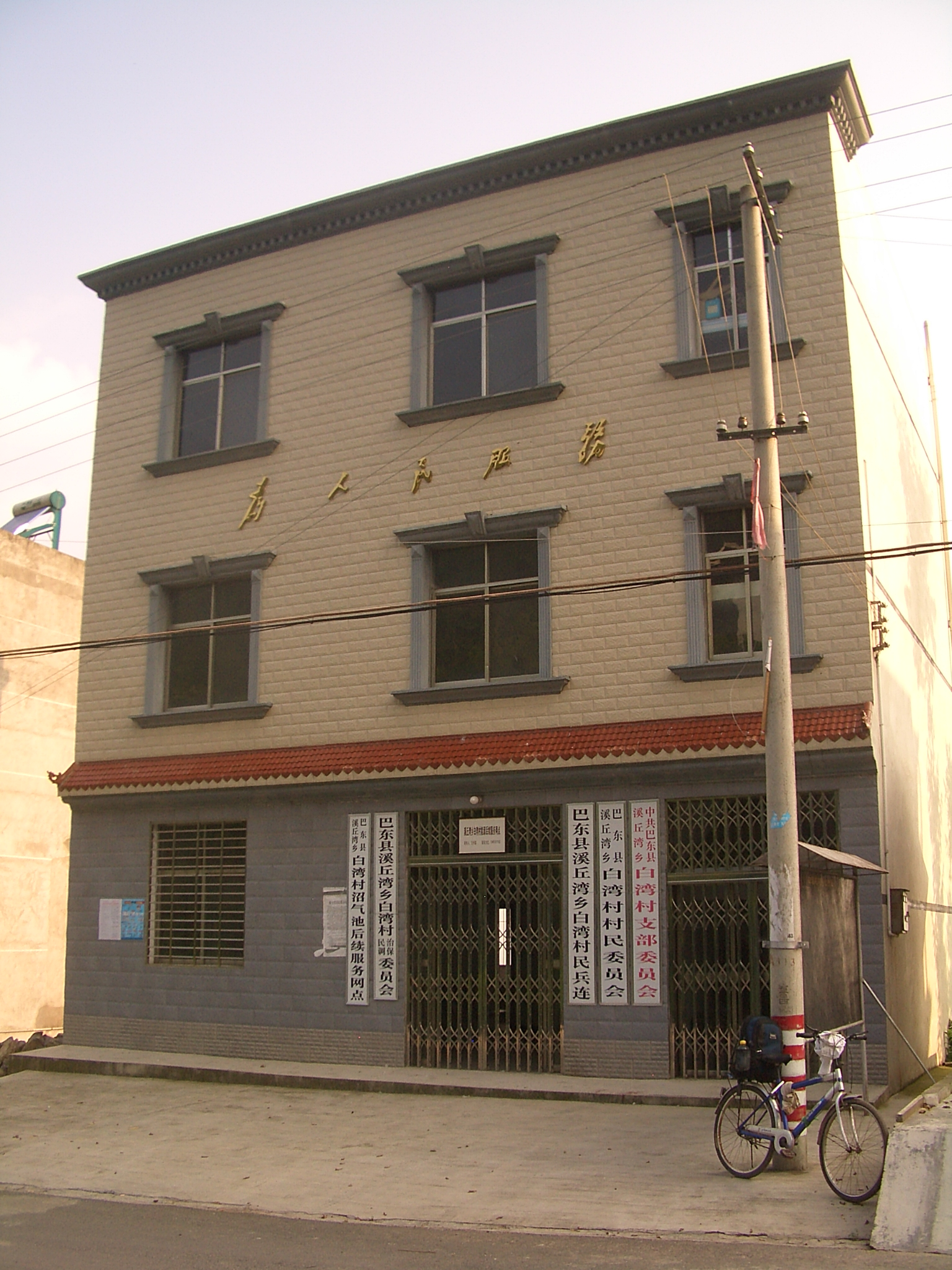 Government offices of Baishawan village, in Xiqiuwan Township, Badong County, Hubei. (Located on G209 NE of town, on the way to Gaoqiao, Xingshan County)